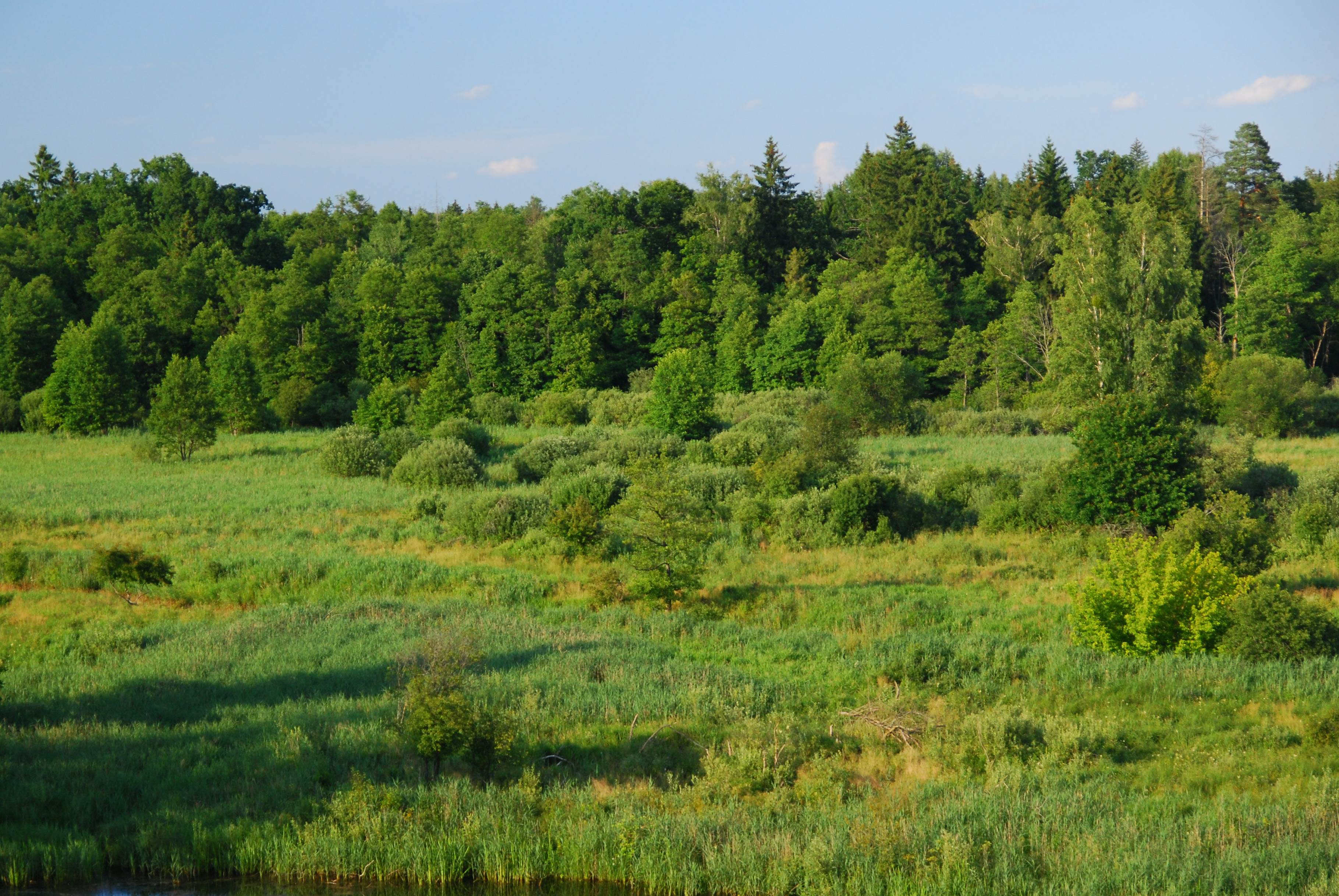 This photo from Podlaskie Voievodeship was taken during Polish Wikiexpedition 2009 set up by Wikimedia Polska Association. The making of this document was supported by Wikimedia Polska. Białowieski National Park Landscape